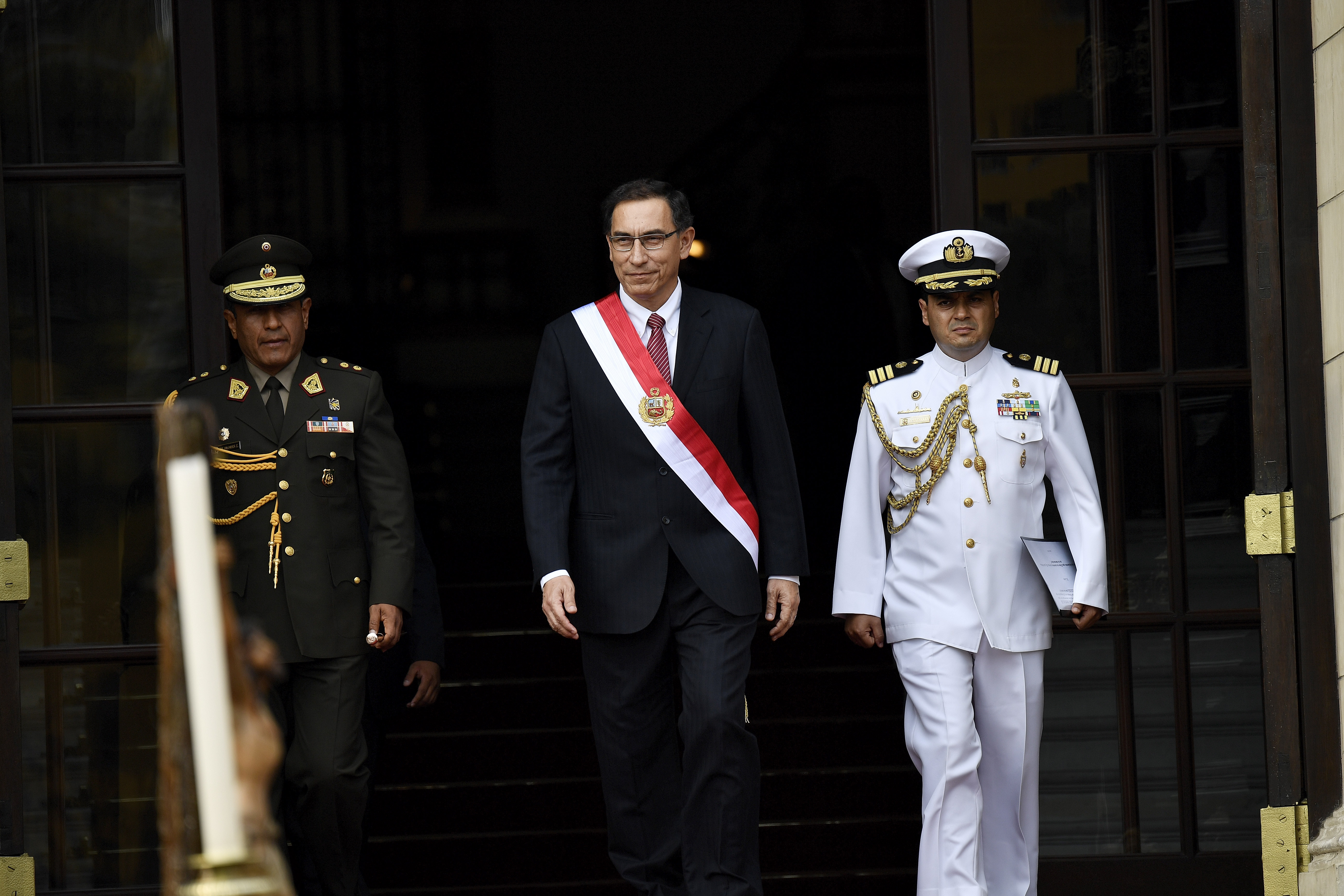 President of Peru Martín Vizcarra, prior to swearing in his cabinet